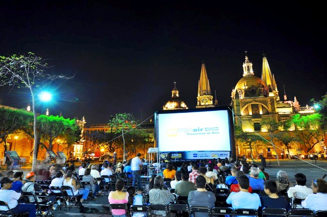 Outdoor movie nights in Mexico